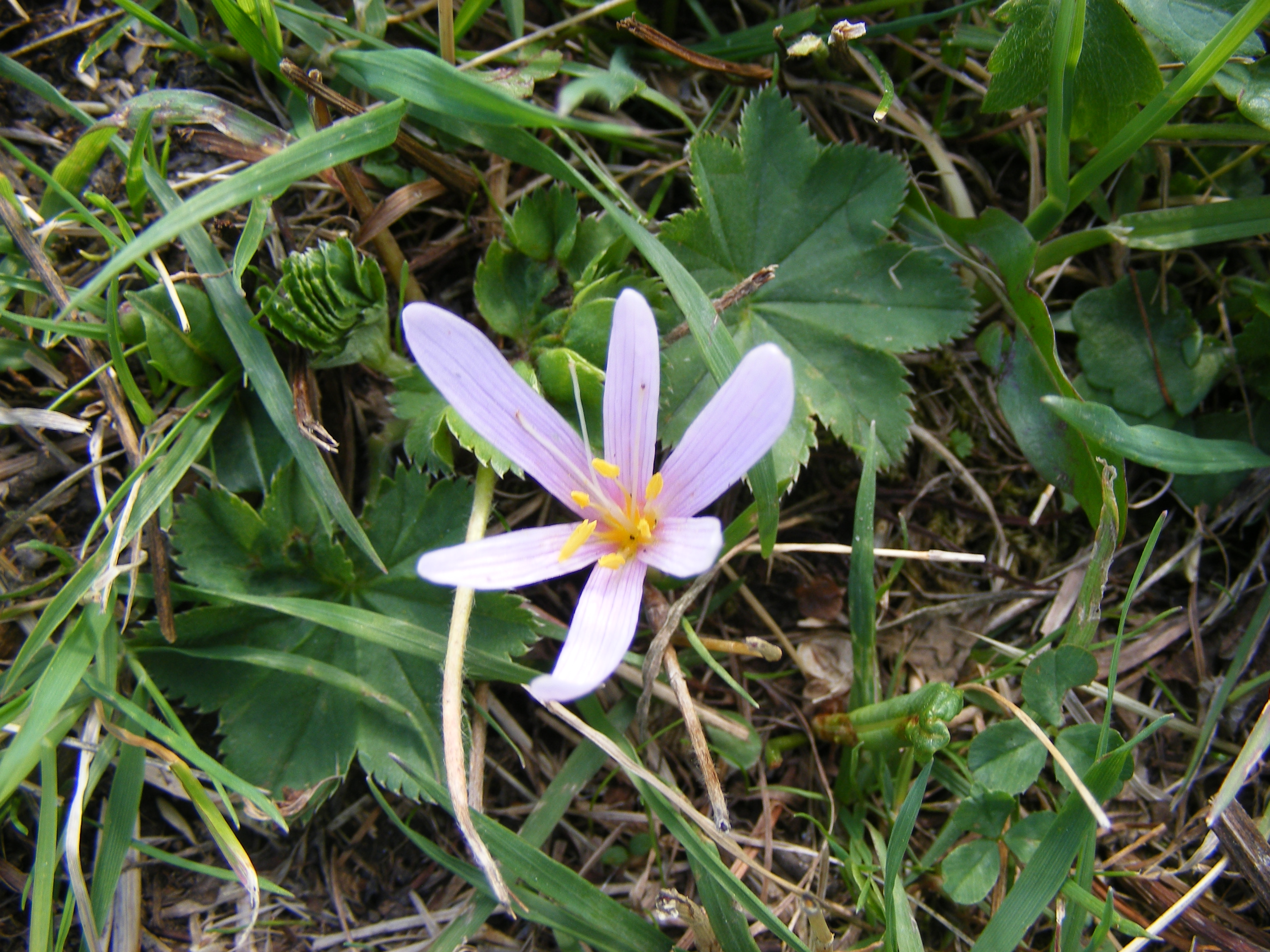 Colchicum alpinum